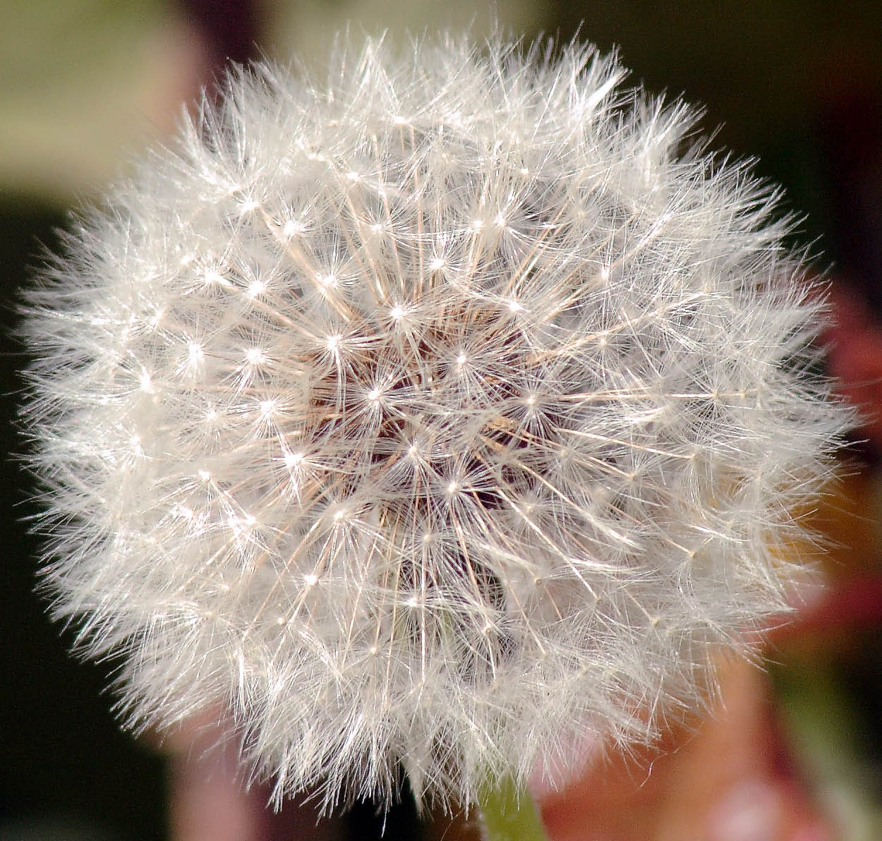 Self made image of dandelion.